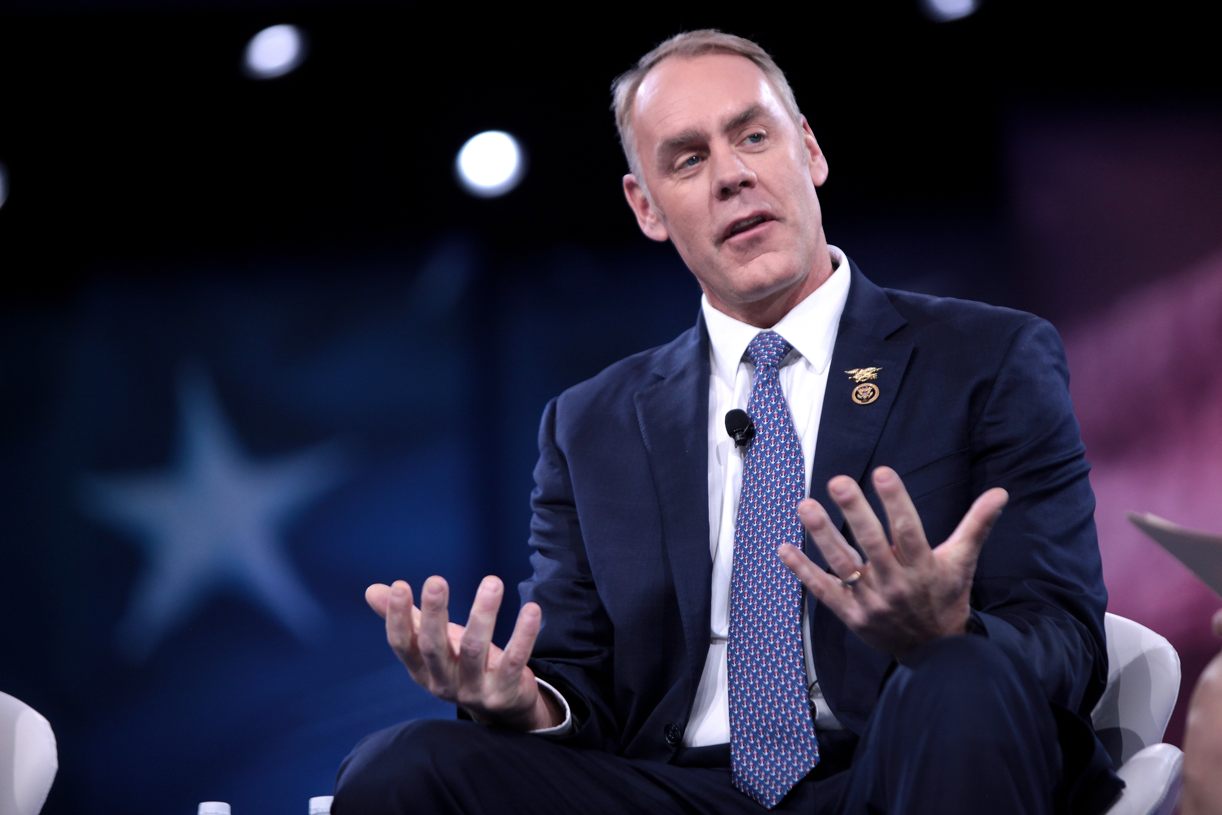 Ryan Zinke speaking at CPAC 2016 in Washington, D.C.